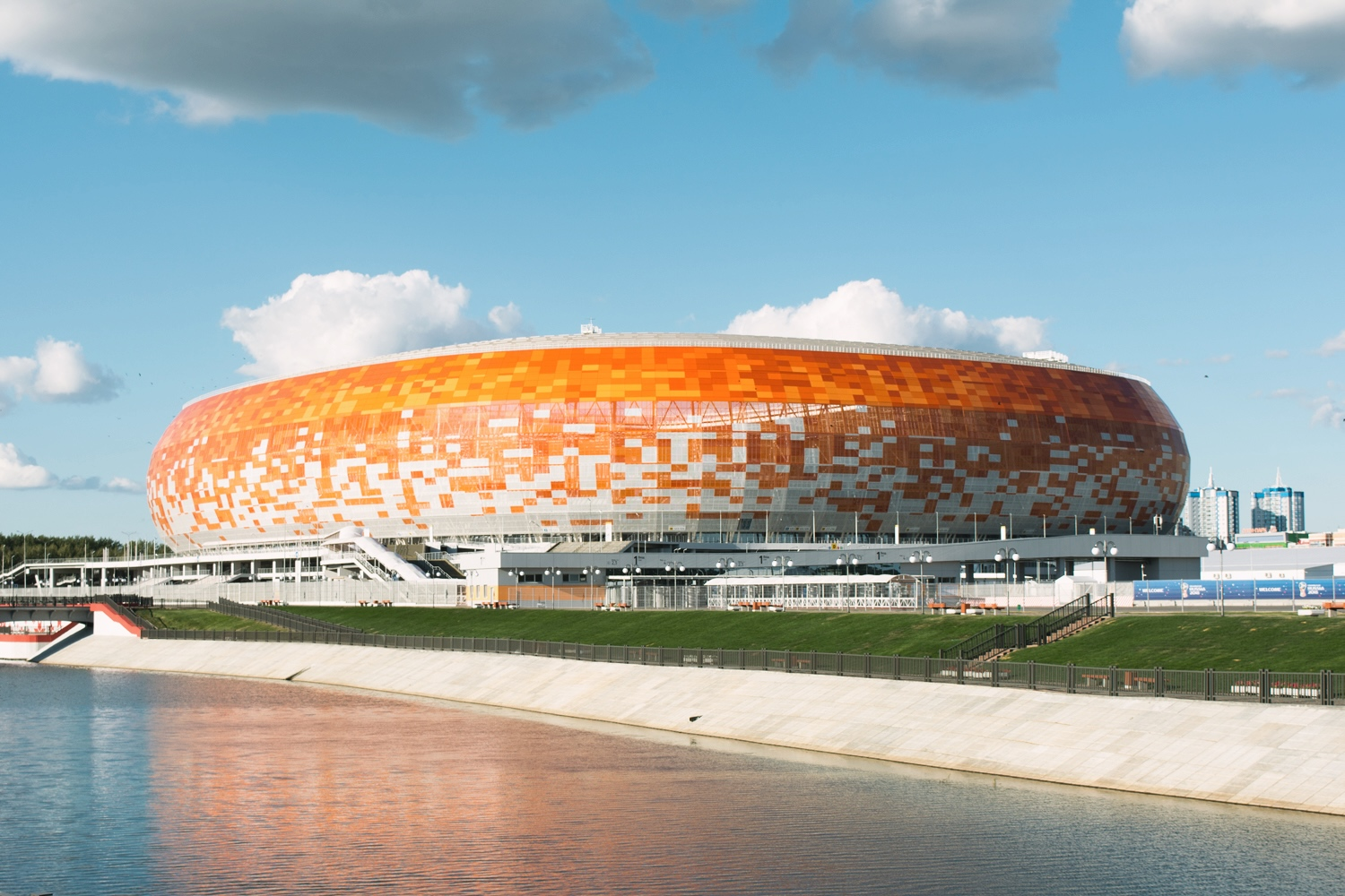 View of the stadium